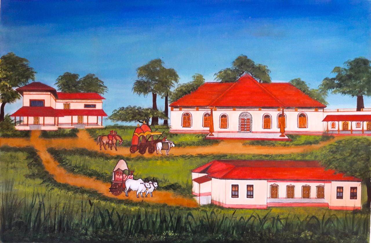 Vogeti bungalows- 1830s deception. Painted by Pooja patnayak. Built in 1757s and continued its legacy till Raja Vogeti Krishnam raju, glorified during the period of Raja Vogeti ramakrishnayya spreading over 1 acre in heart of the city becoming the hugest for many decades in rajahmundry. Main bungalow being 850sq yards with 32 rooms, front of it another courtyard house called prince bungalow with 9 rooms spread over 300sq yards,attached terraced building to the main bungalow is guests bungalow with 7 rooms with 350sq yards and the far two storeyed one is estate office spread over 300 square yards with 12 rooms.